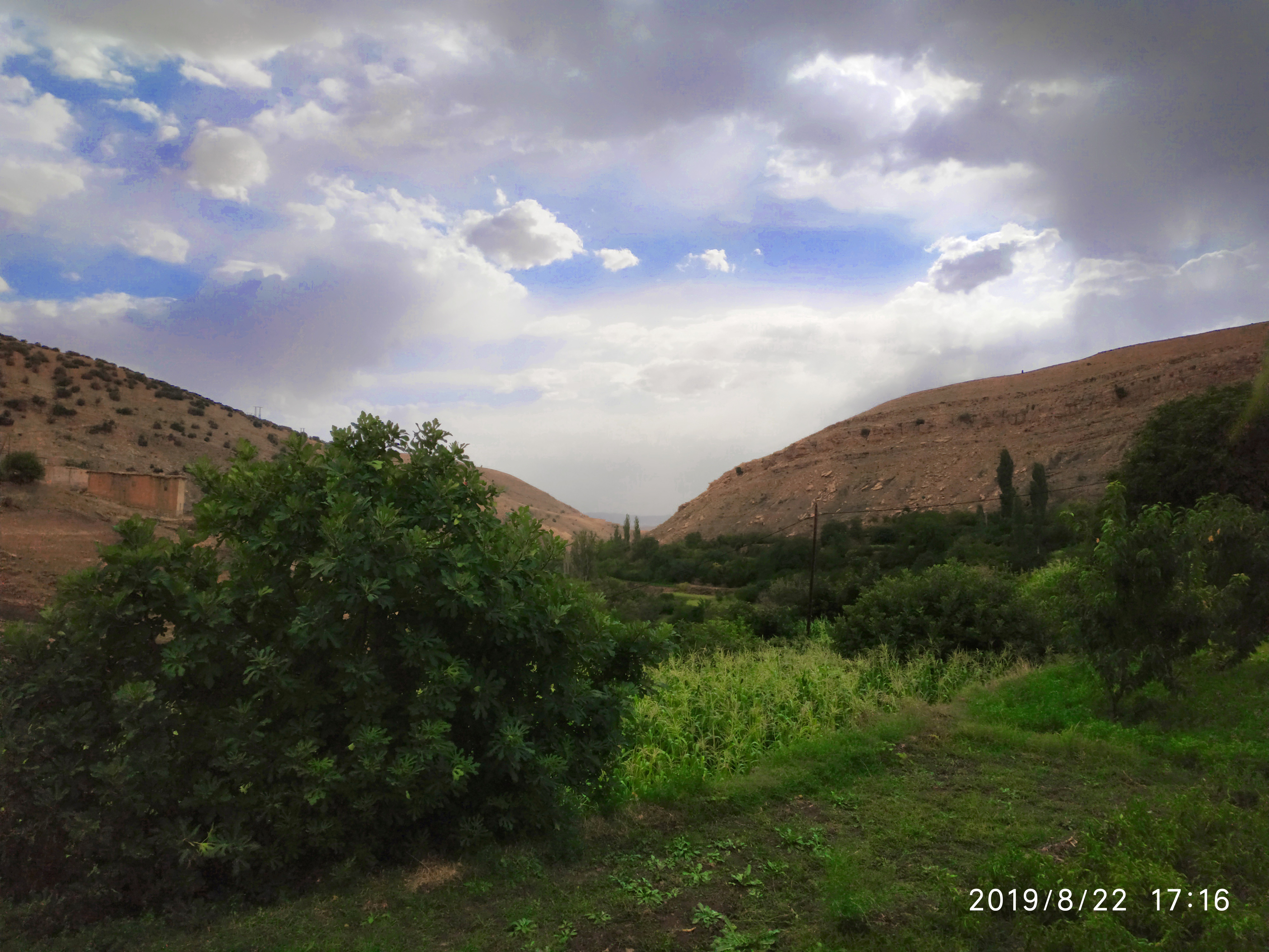 This is an image with the theme "Africa on the Move or Transport" from: Morocco